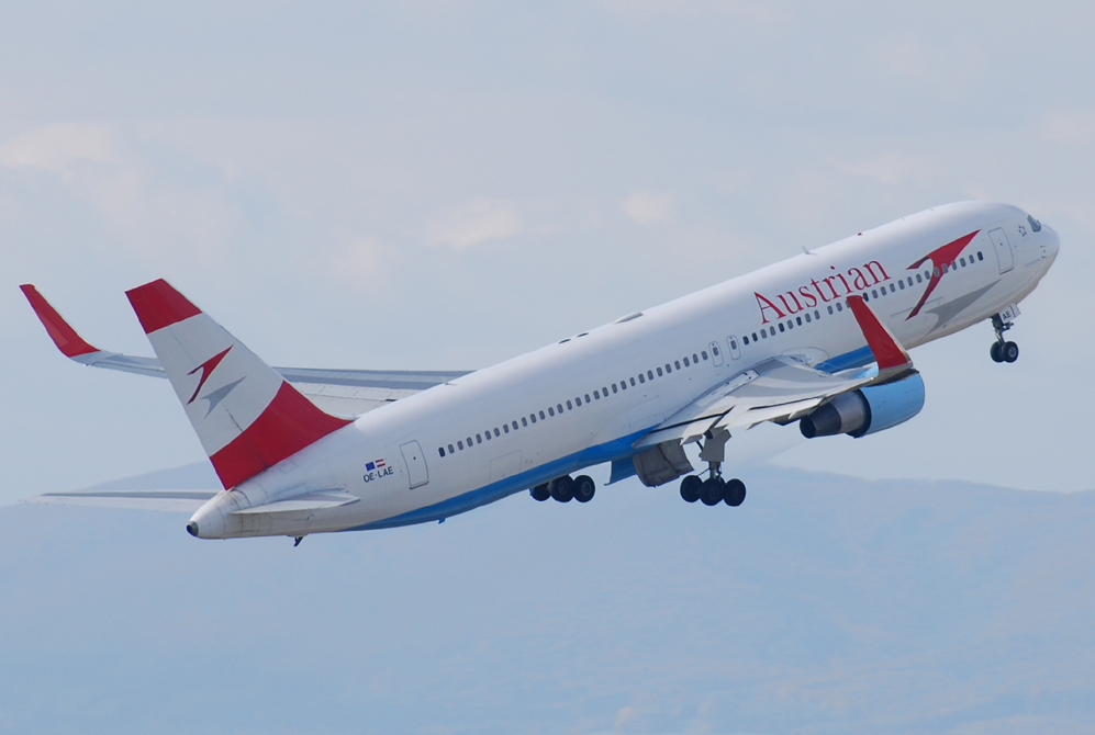 Austrian Airlines Boeing 767-300ER(WL) Wiener Sängerknaben lifts off. Vienna International Airport.